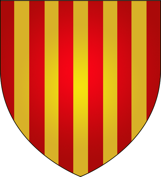 Coat of arms of the municipality of Strassen, Luxembourg